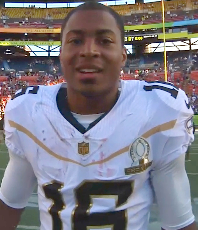 Seattle Seahawks wide receiver Tyler Lockett during 2016 Pro Bowl